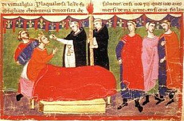 Deaths of Charles I of Anjou